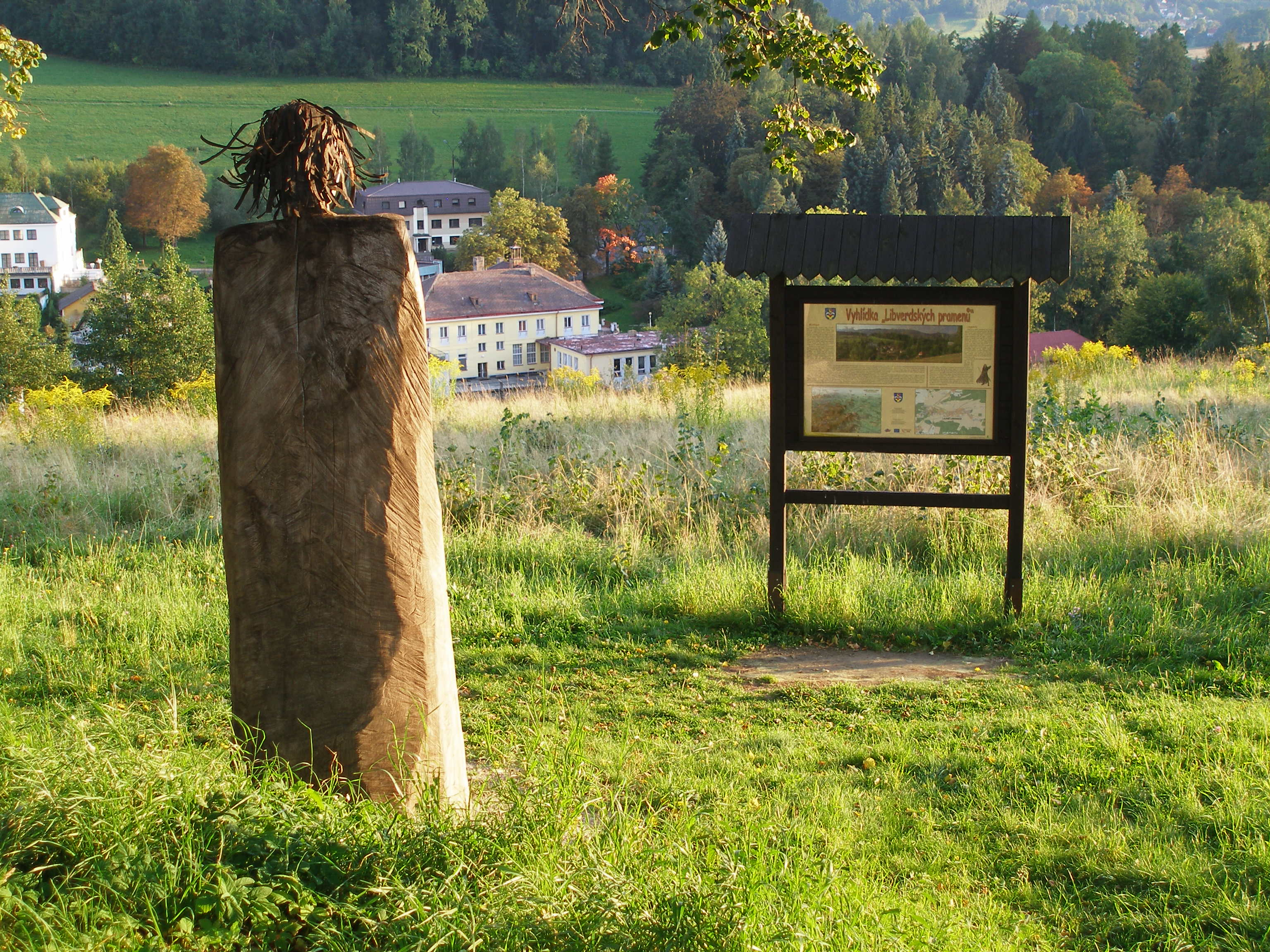 Vyhlídky nad Libverdou, Vyhlídka Libverdských pramenů (all view).